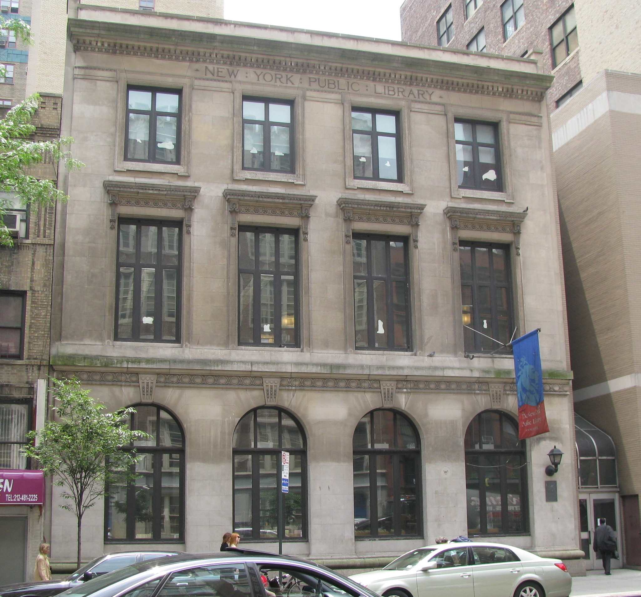 The Epiphany Branch of the New York Public Library, funded by Andrew Carnegie.